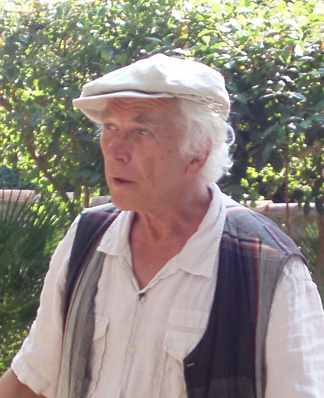 L'architecte paysagiste du jardin du roi à Versailles en visite au Plantier de Costebelle en 2009. Photo prise par Moi même